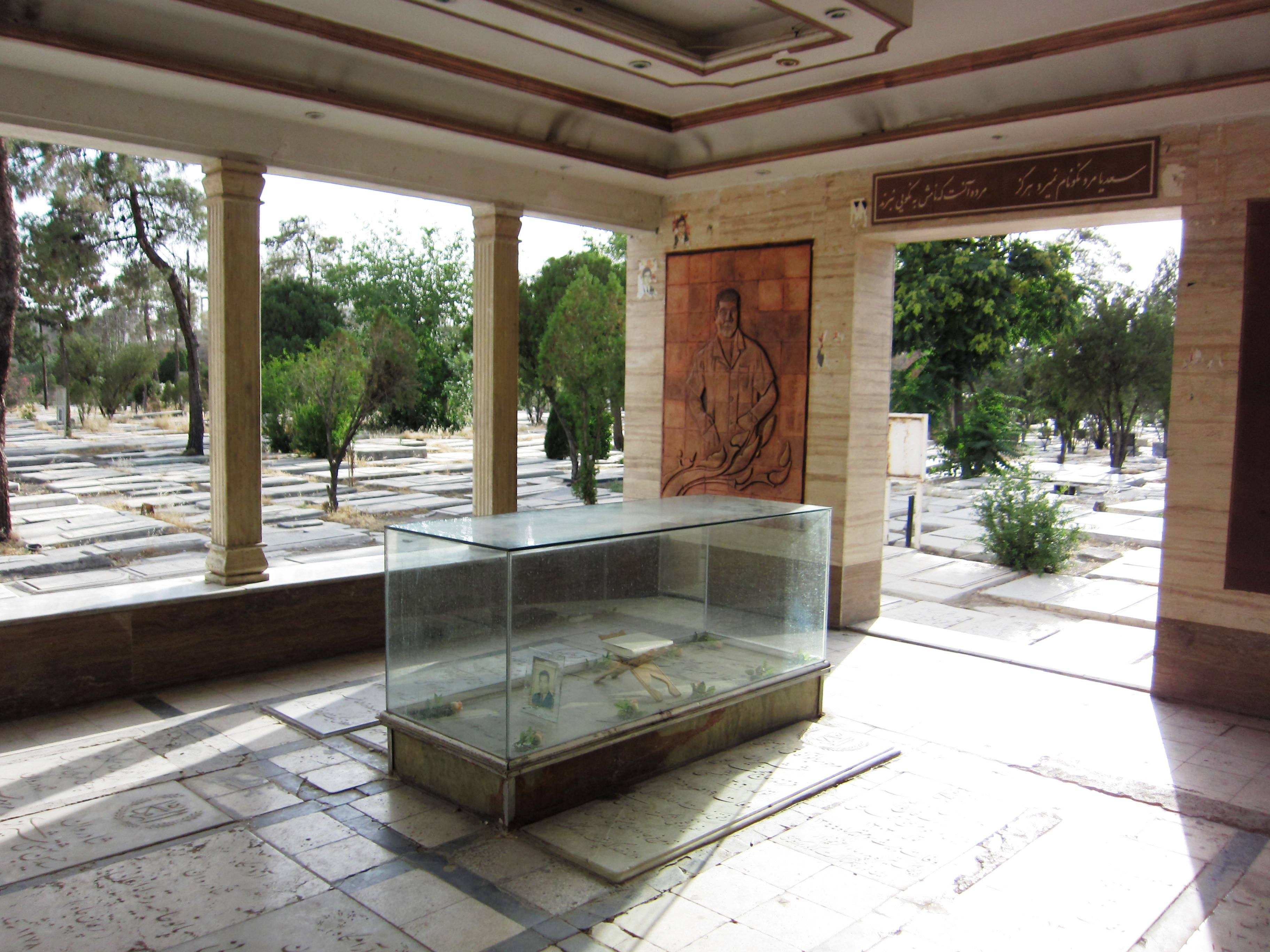 The grave of Mirza Abo al-Hasan Tabatabai (Jelveh) at Ibn Babawayh cemetery, Rey